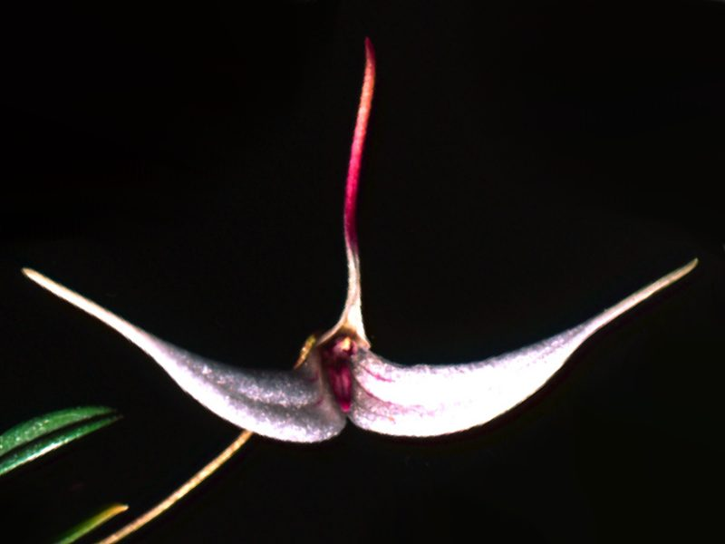 Trisetella hoeijeri